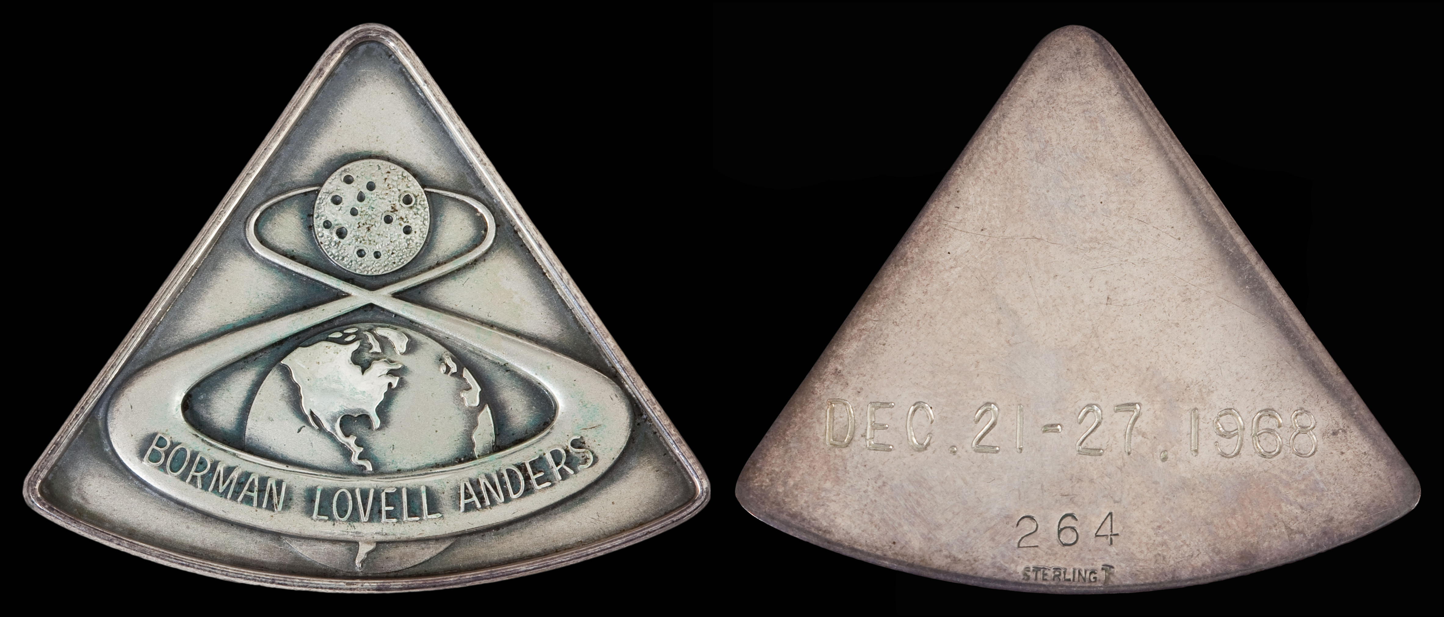 Apollo 8 (S68-51093, December 1968) Flown Silver Robbins Medallion (SN-264) from the collection of Rusty Schweickart(6075-40038)